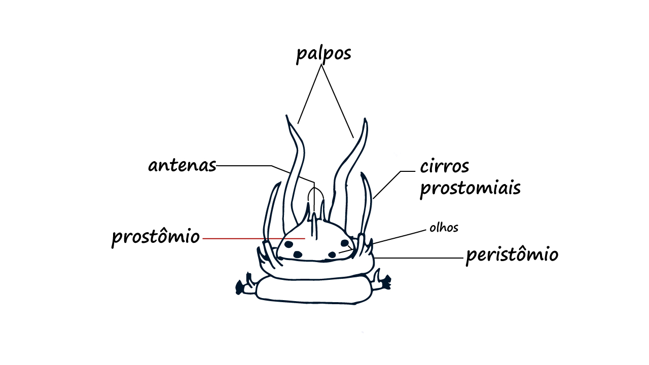 This file represents a schematic dorsal view of an Aphroditiformia worm